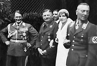 Hermann Goering, Ernst Roem and Karl Ernst during the latter's wedding in 1934.